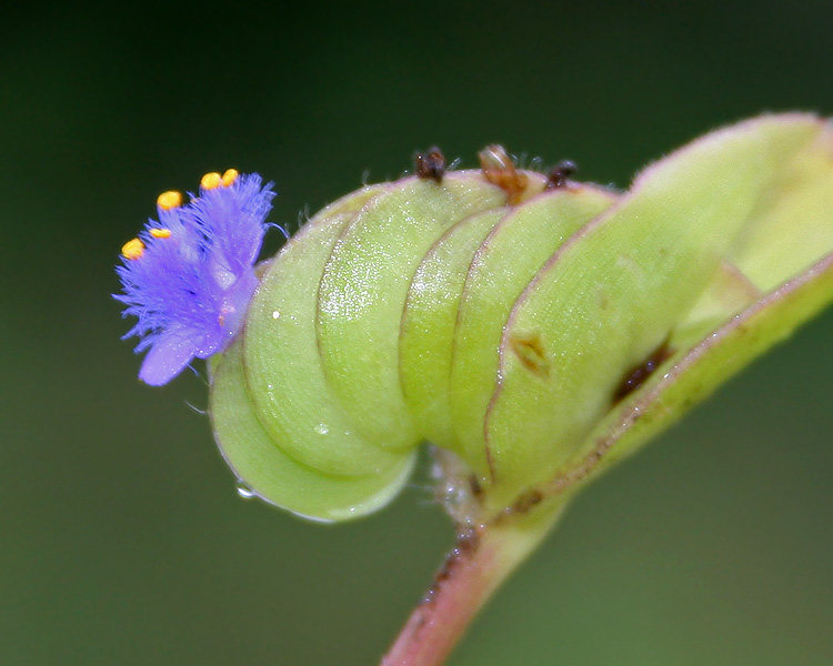 Crested Cat Ears Cyanotis cristata in Hyderabad , India.